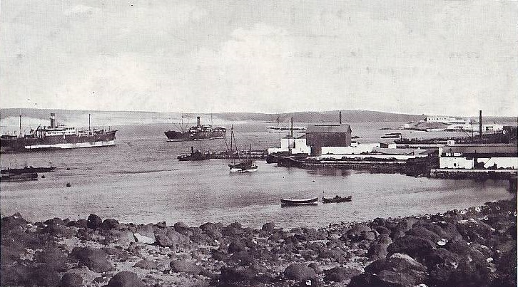 Steamers being coaled at Perim Harbour, c. 1910. Contemporary postcard.